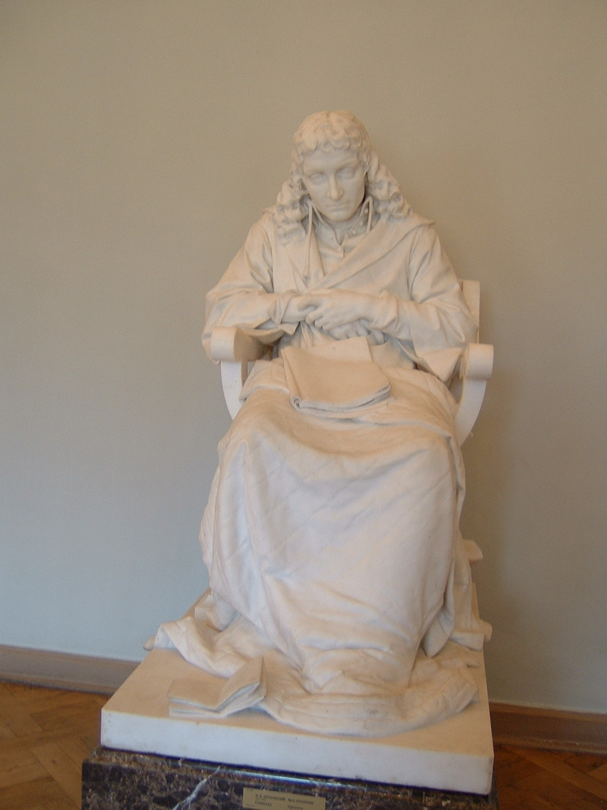 Mark Antokolsky Spinoza The Russian Museum, Photography is mine